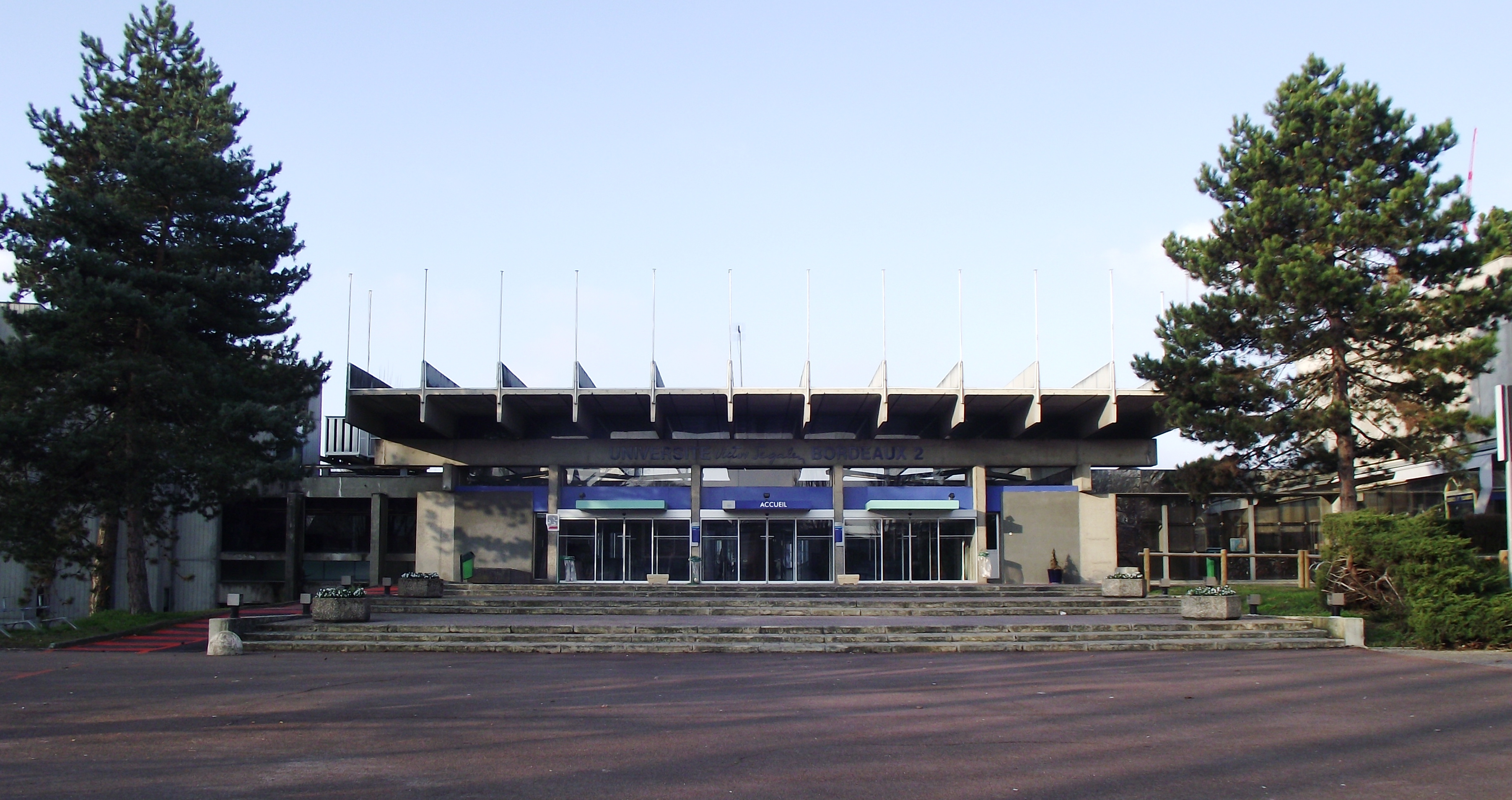 University Victor Segalen Bordeaux 2 : Carreire site